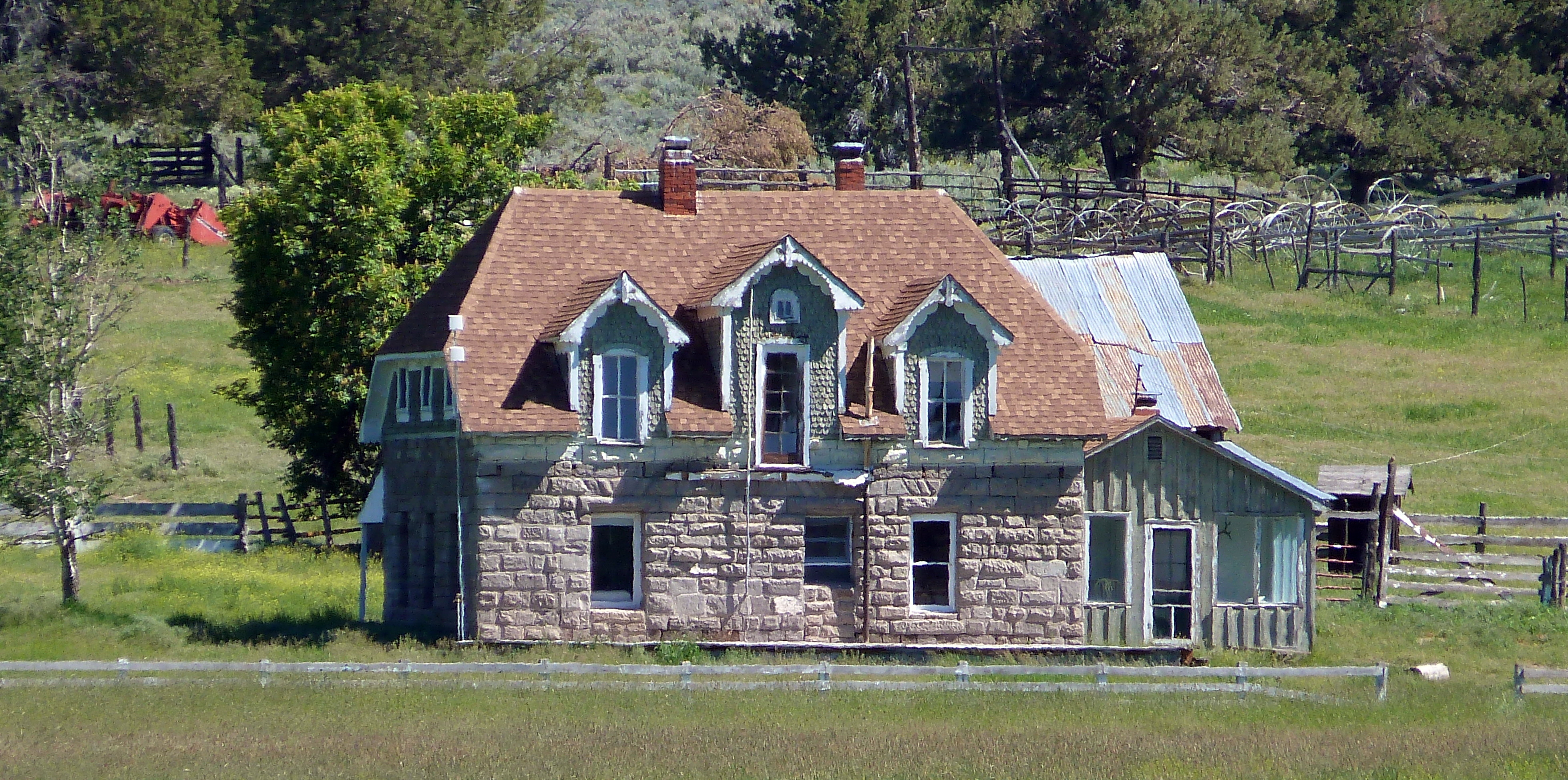 The historic Roba Ranch (built 1910), located at 66953 Roba Ranch Road near Paulina, Oregon, United States, is listed on the US National Register of Historic Places.